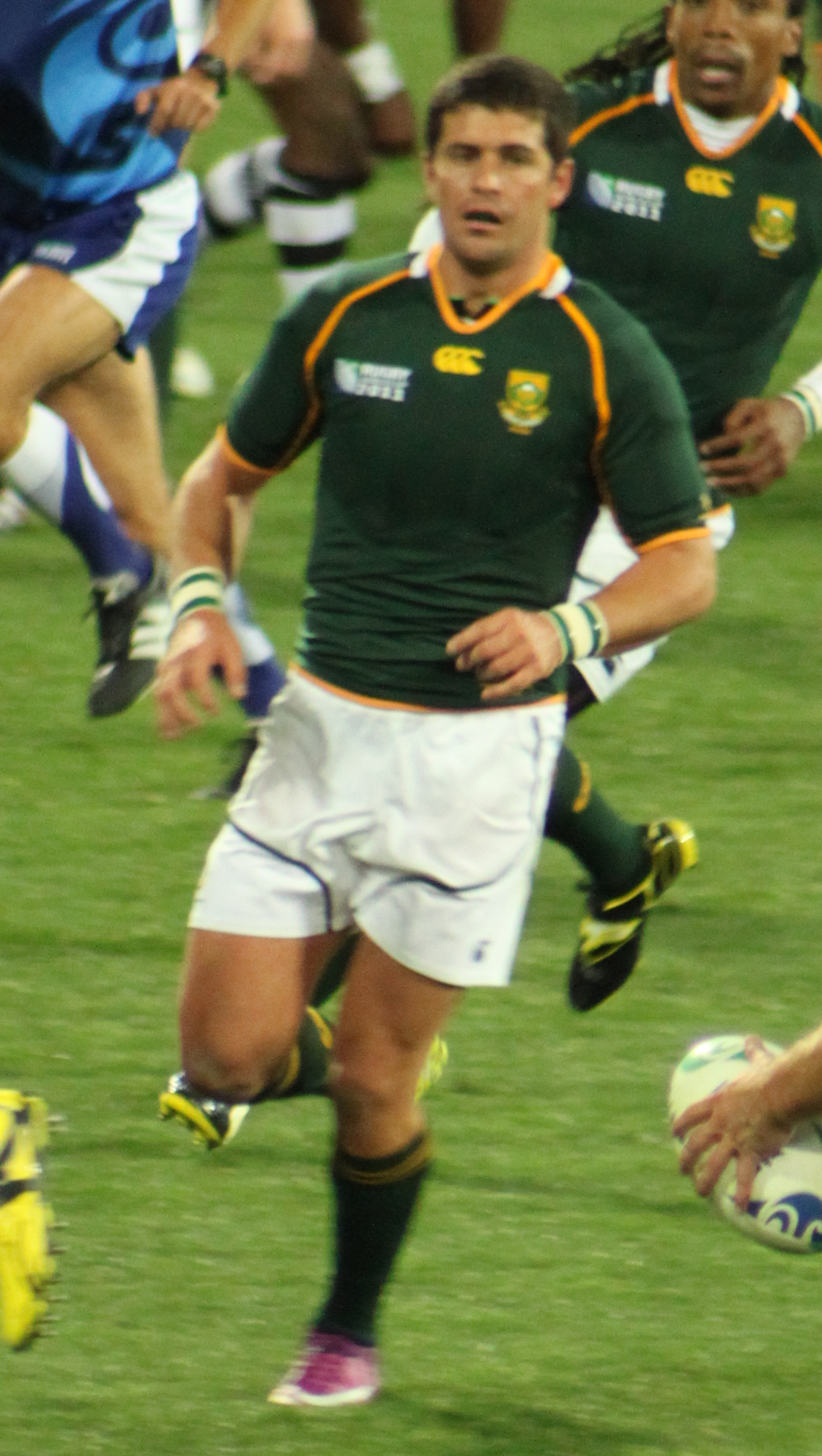 Match between South Africa and Fiji during 2011 Rugby World Cup in New Zealand.